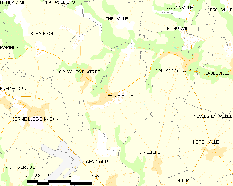 Map of French municipality Épiais-Rhus